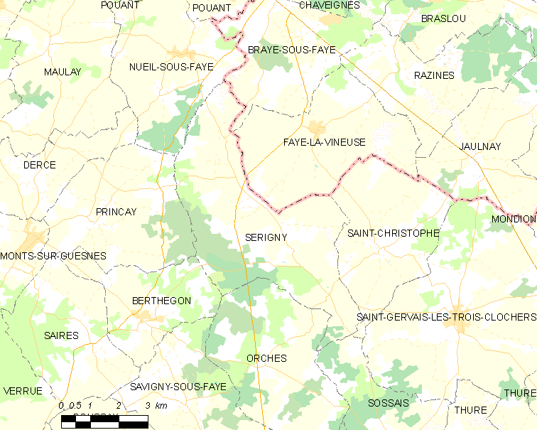 Map of French municipality Sérigny